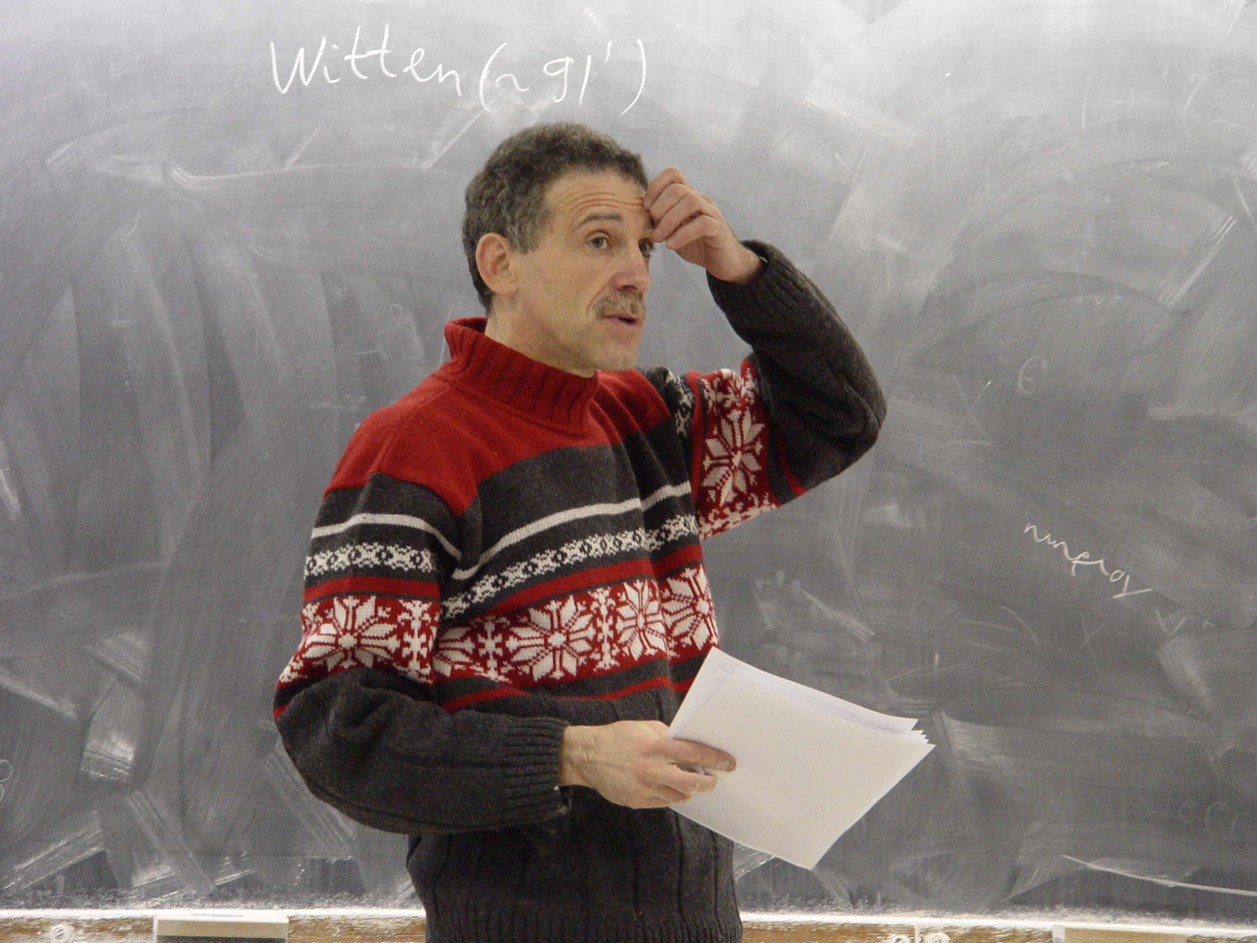 Russian mathematician professor Yan Soibelman giving lectures in the University of Paris.